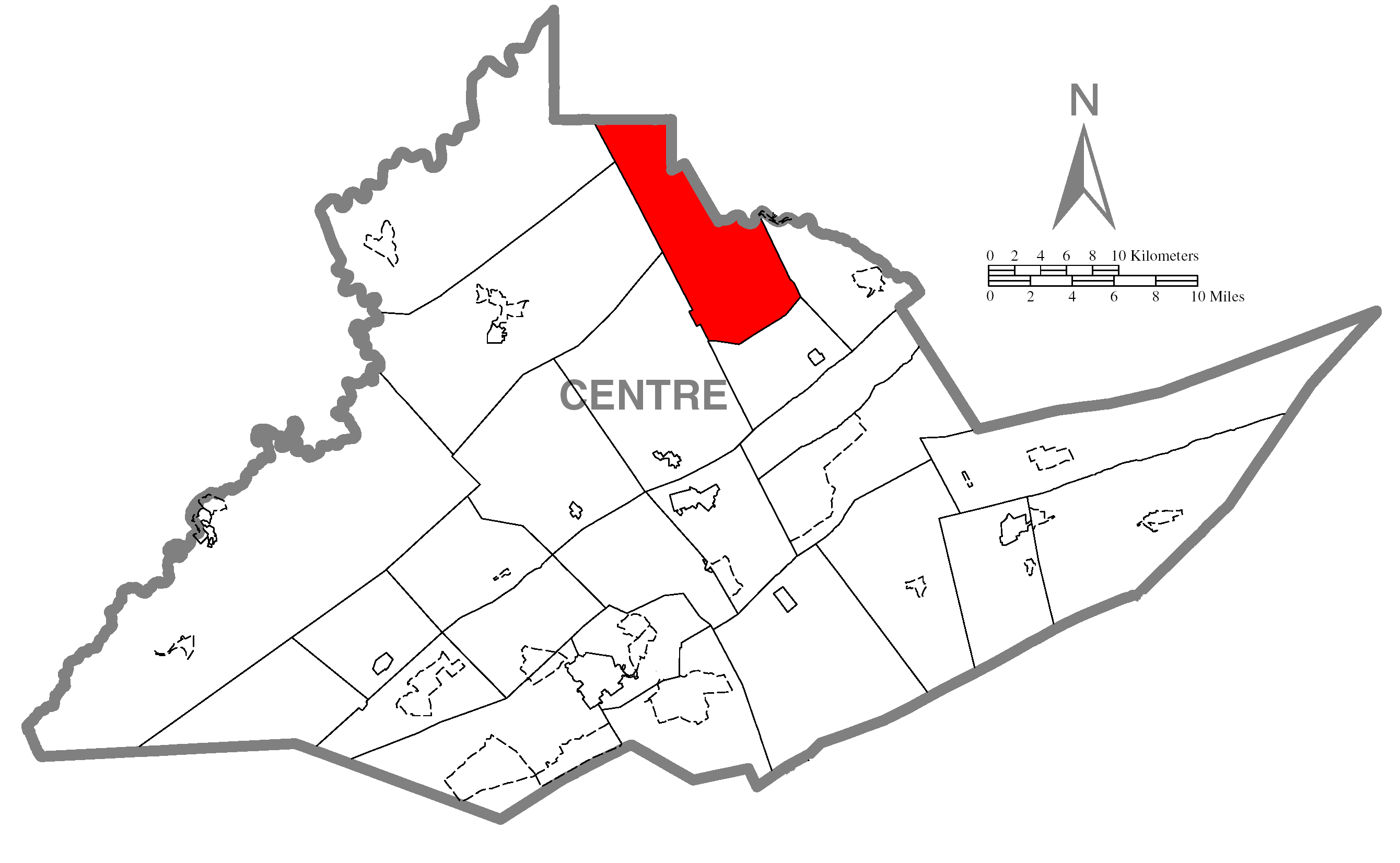 A map of Centre County showing Curtin Township, Pennsylvania (alternate) highlighted on the map.